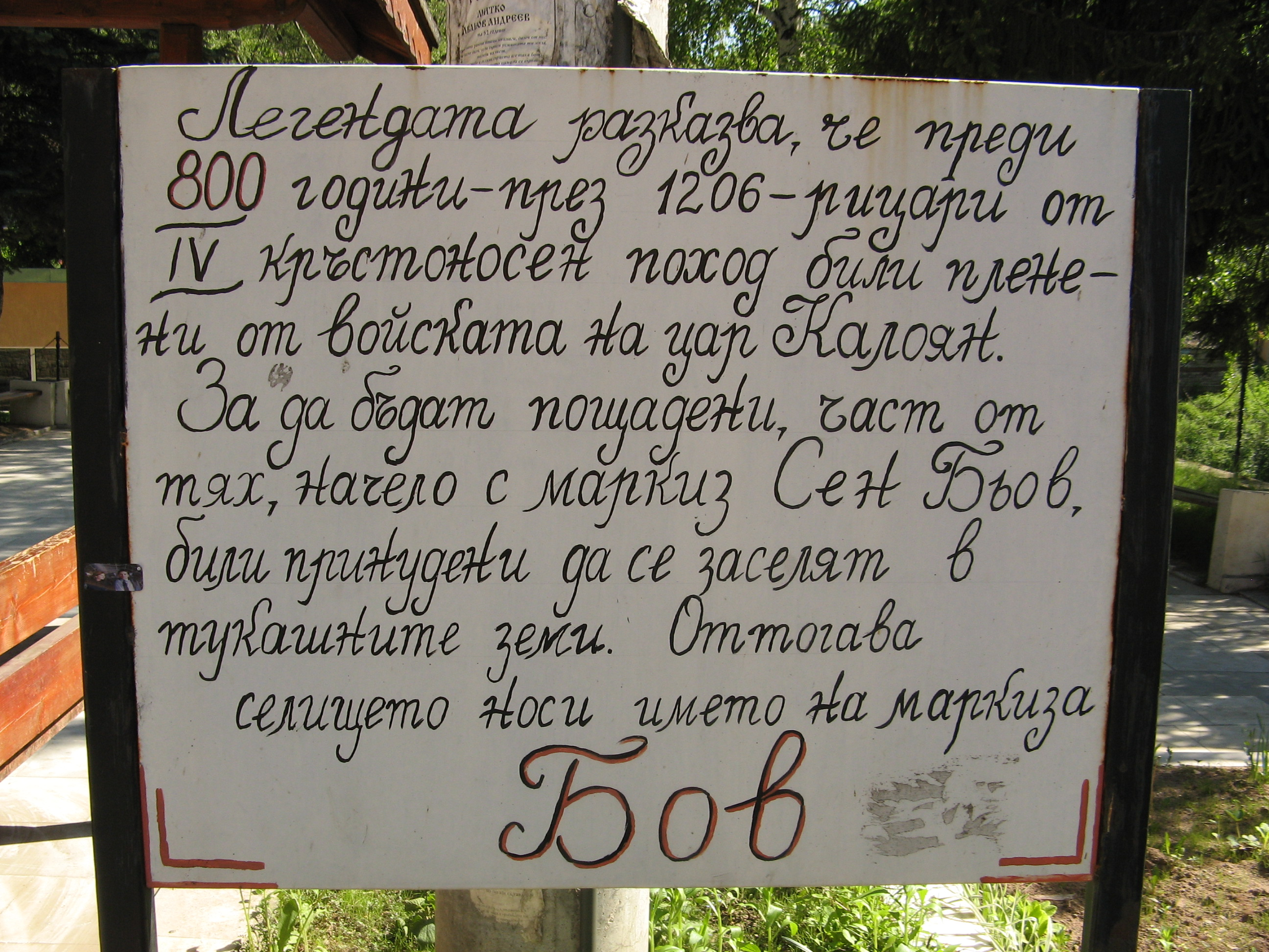 Gara Bov information board (Bulgaria)